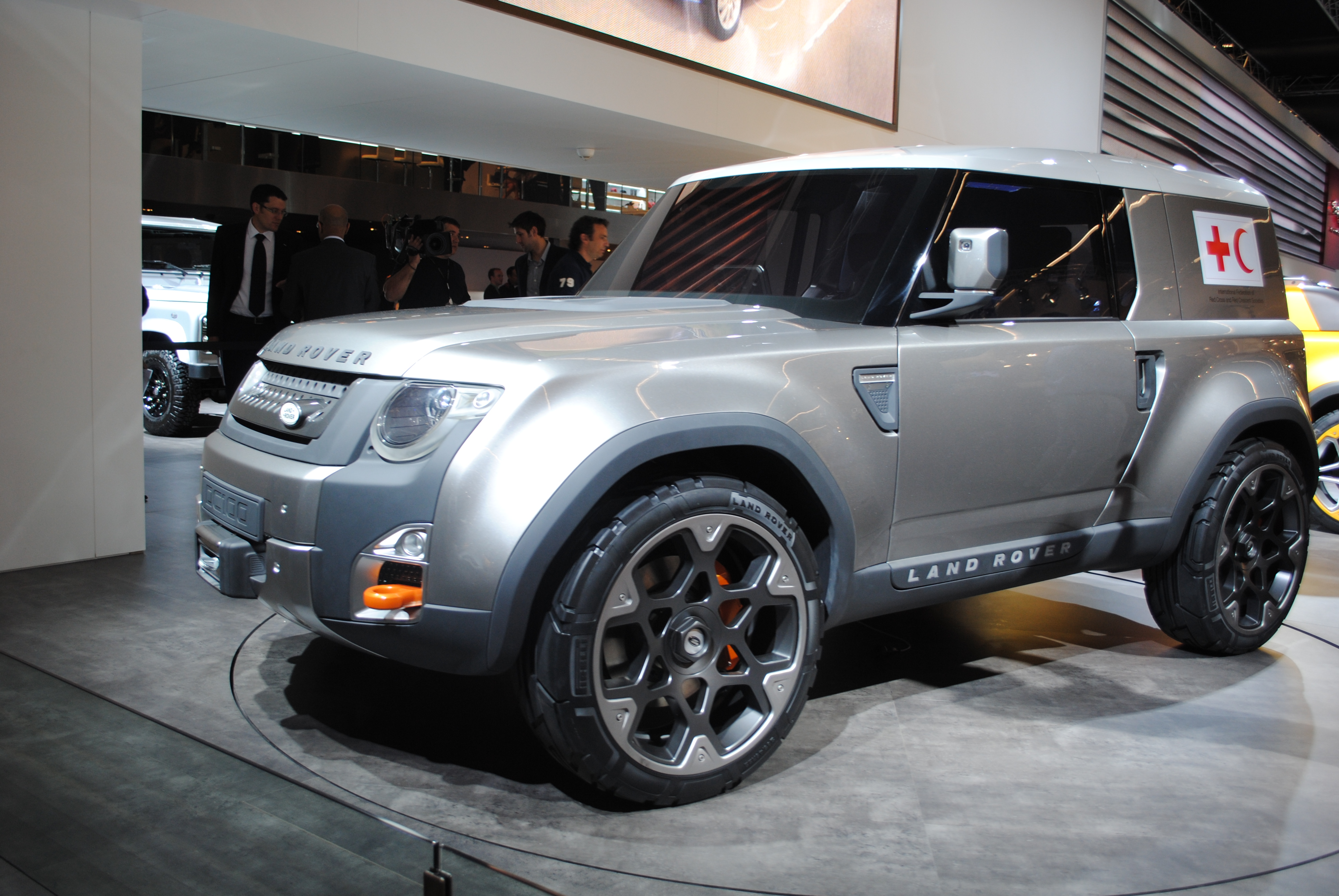 More photos and info